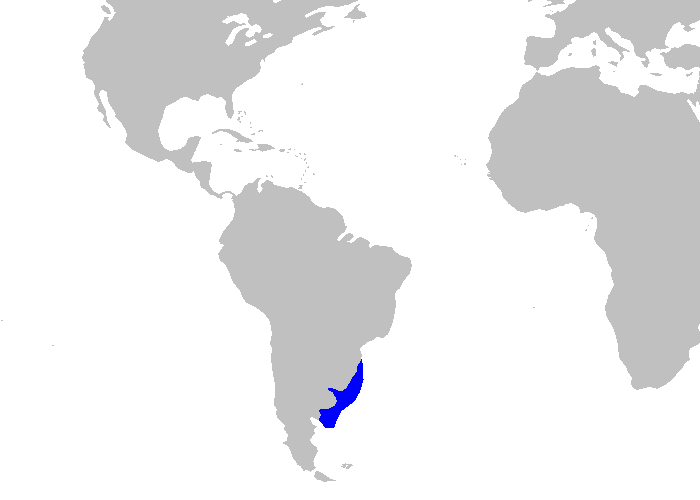 Distribution map for Mustelus schmitti